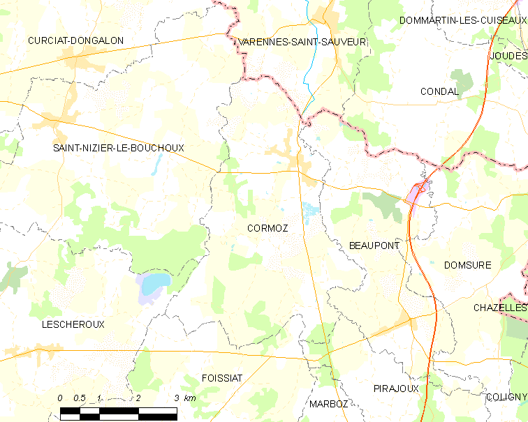 Map of French commune: Cormoz Map commune FR insee code 01124.png